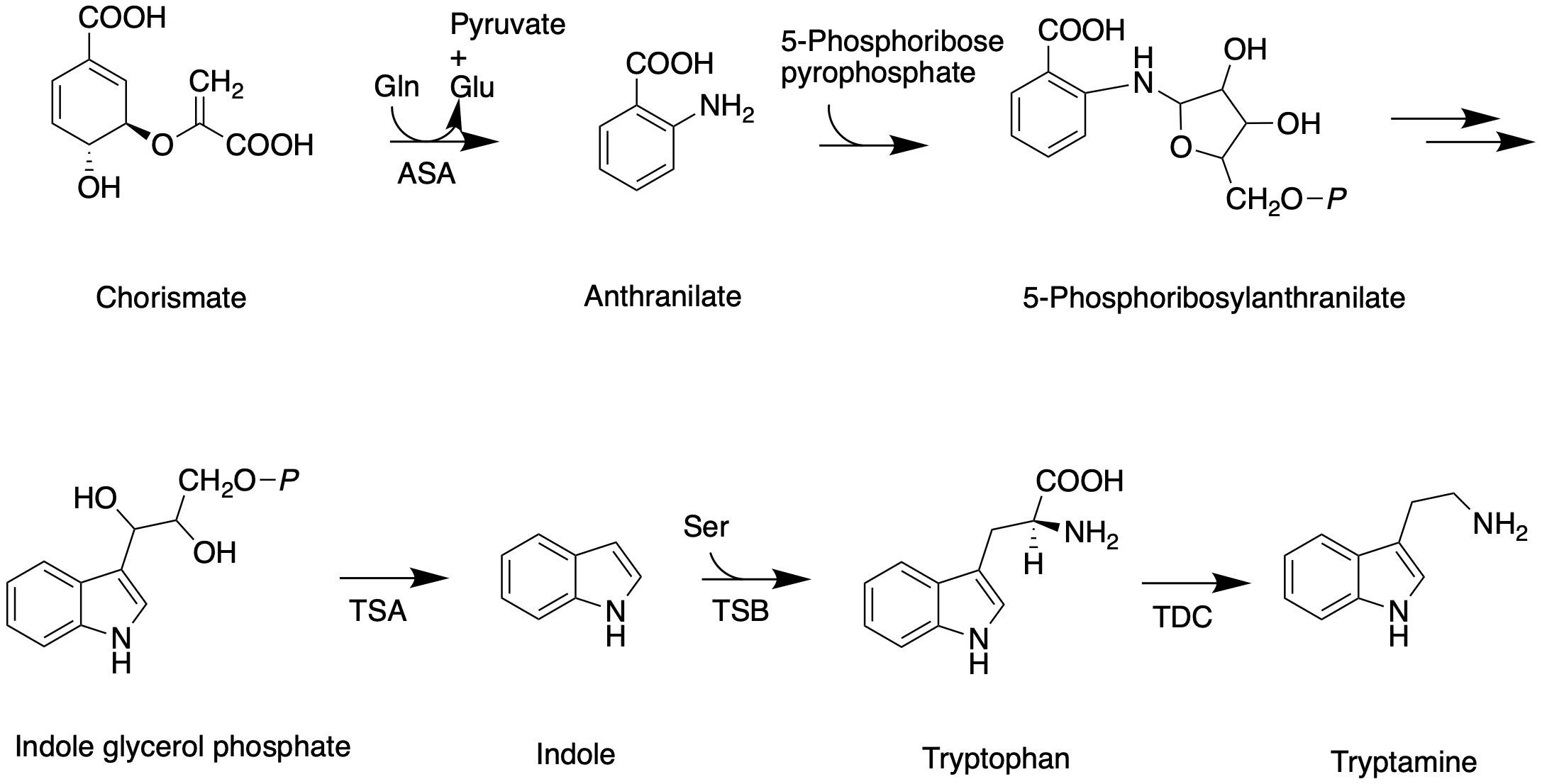 Biosynthesis of tryptamine via shikimate pathway. ASA, anthranilate synthase; TSA, the alpha-subunit of tryptophan synthase; TSB, the beta-subunit of tryptophan synthase; TDC, tryptophan decarboxylase; Gln, glutamine; Glu, glutamic acid; Ser, serine; P, phosphate group.[1]